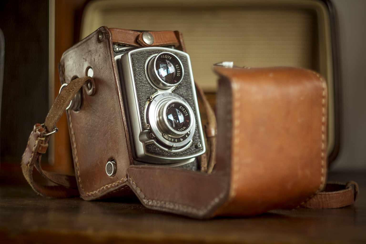 Start I - Polish two lens camera